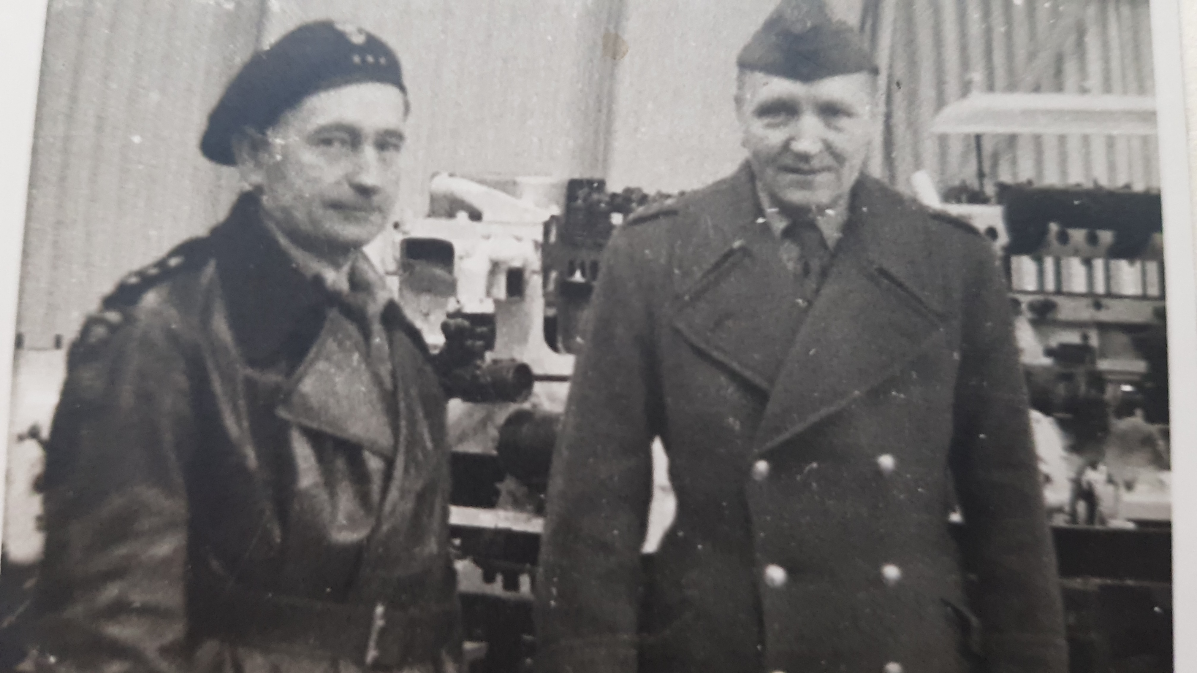 witkowski16